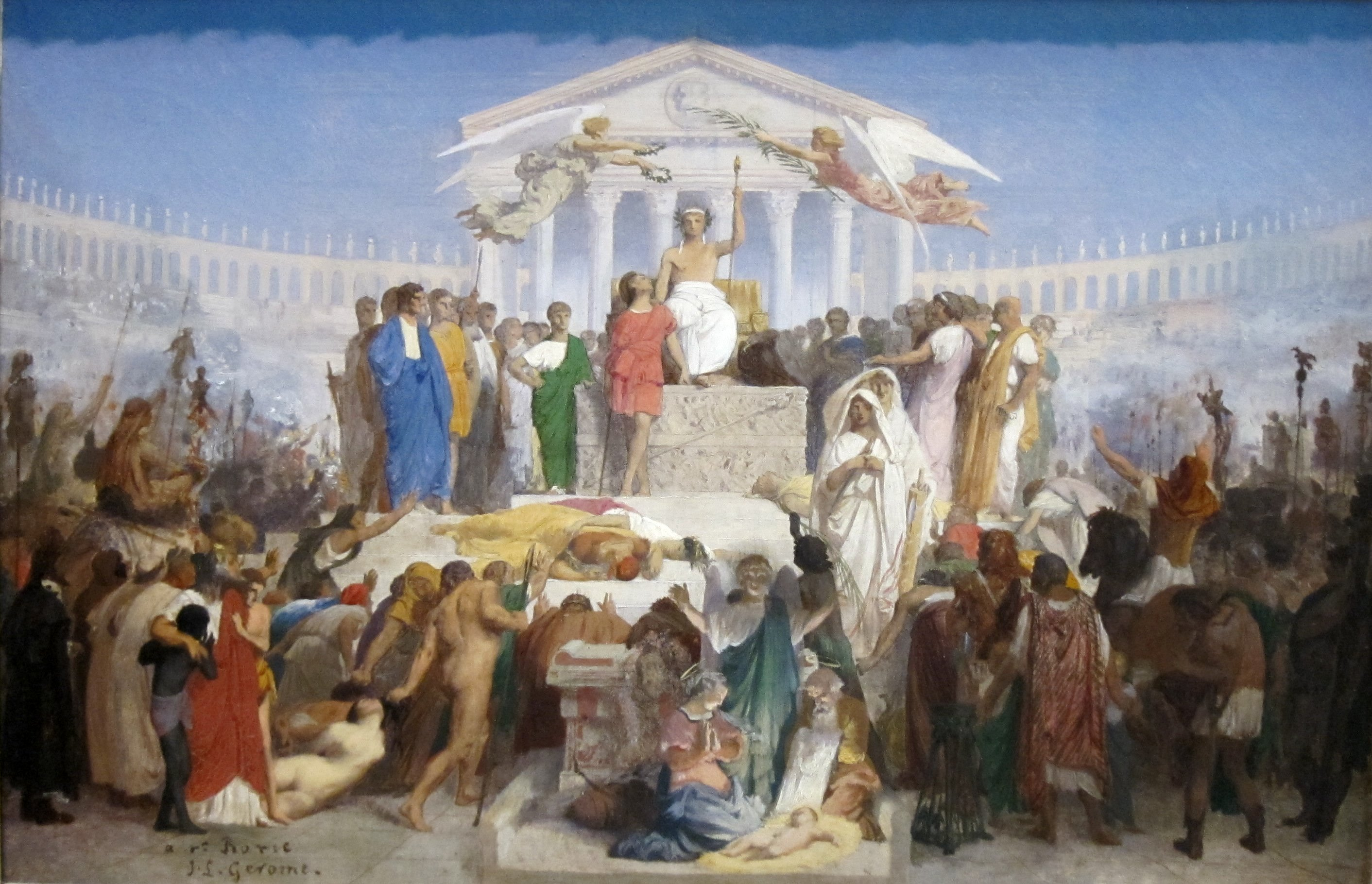 preliminary work The Age of Augustus, the Birth of Christ, oil on canvas